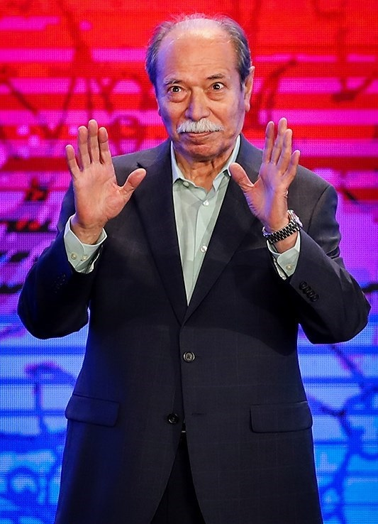 Ali Nassirian